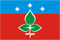 Puschino (Moscow oblast), flag